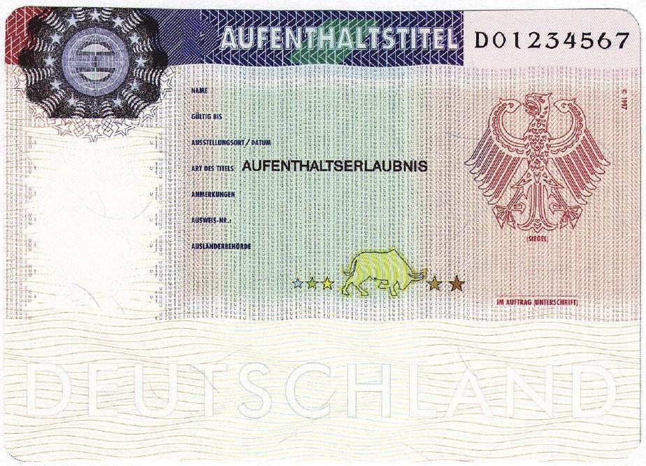 Residence permit (sticker) in Germany, available until 31 December 2004